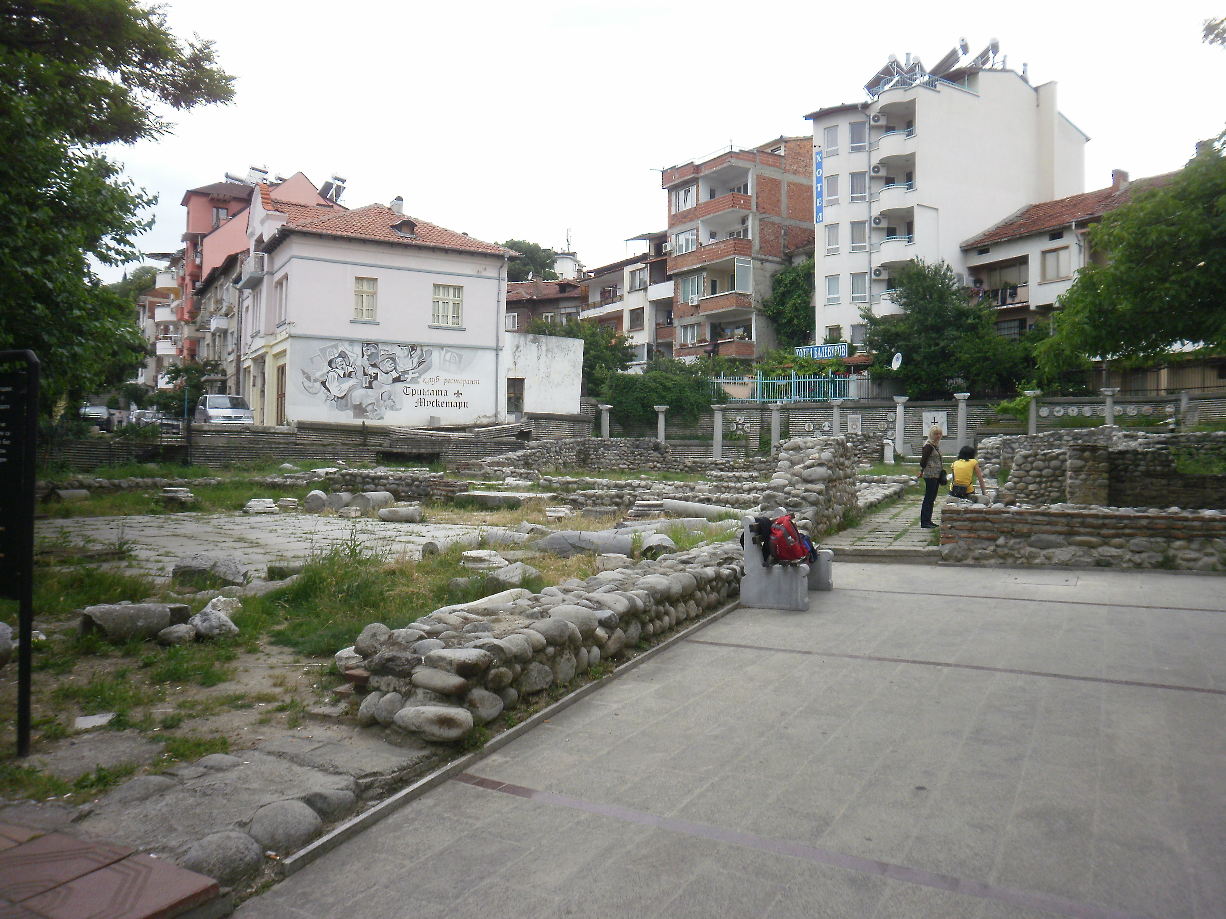 Sandanski, Bulgaria